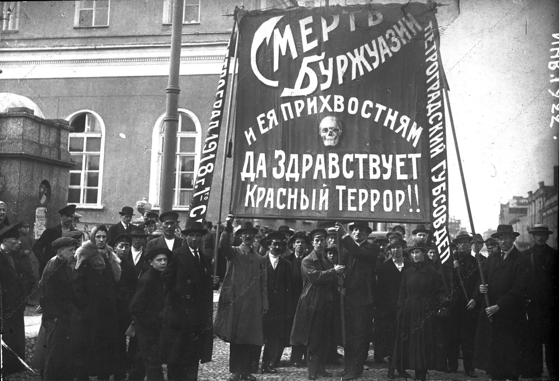 Funeral of Moisei Uritsky. Petrograd. Translation of the banner: "Death to the bourgeois and their helpers. Long live the Red Terror."